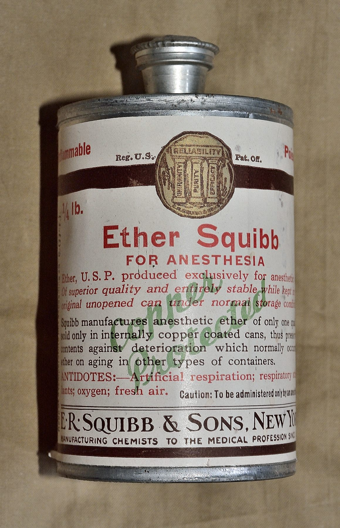 An old metal flask of ether for narcosis produced by E.R. Squibb & Sons, New York.